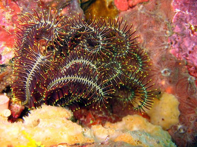 Feather star (Comanthus alternans), Bali, Indonesia